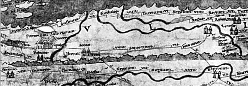 Tavola Peutingeriana Aesernia e Beneventum